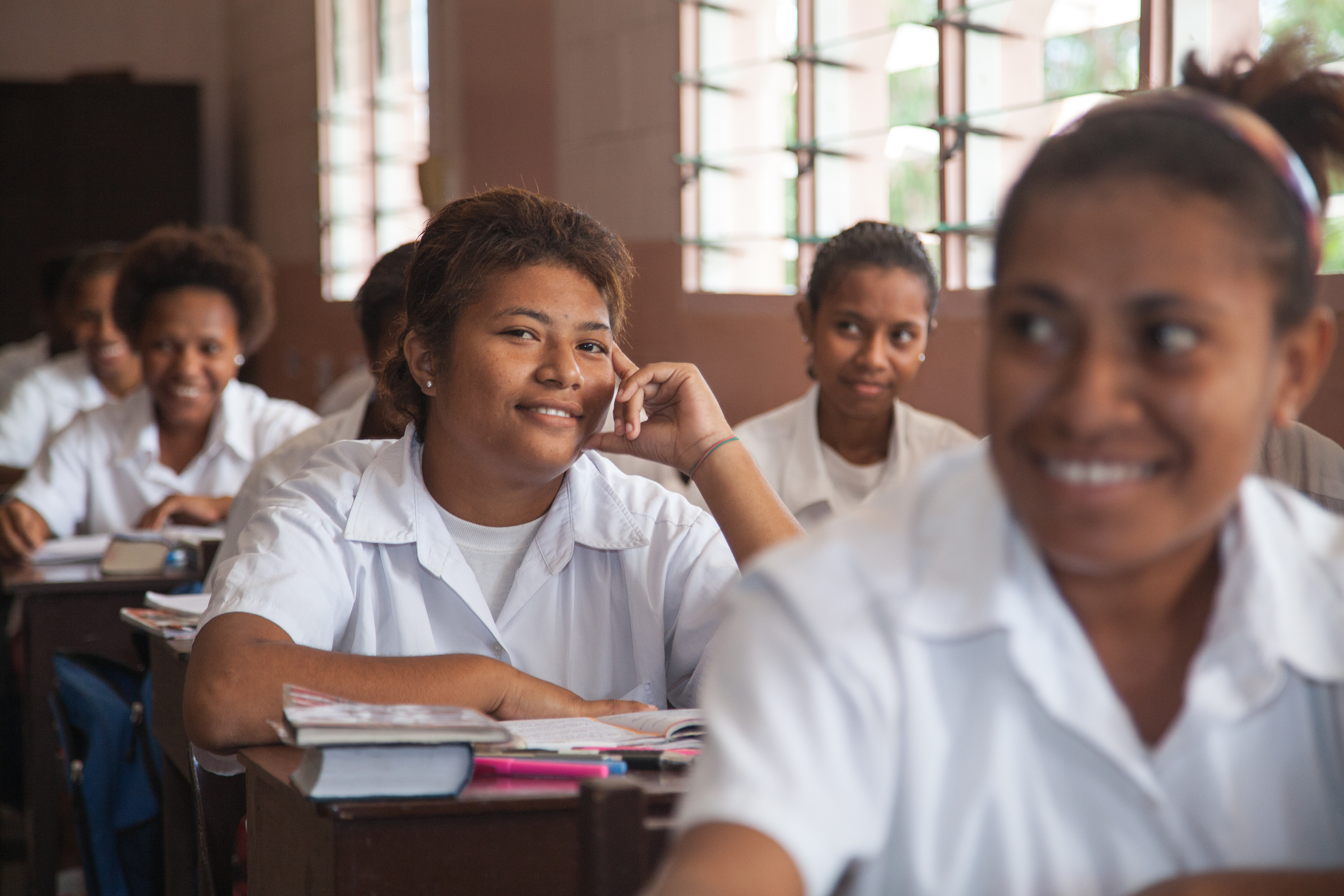 Students from Caritas Technical Secondary School in various classrooms, East Boroko, PNG. Photo taken by Ness Kerton for AusAID. (13/2529)